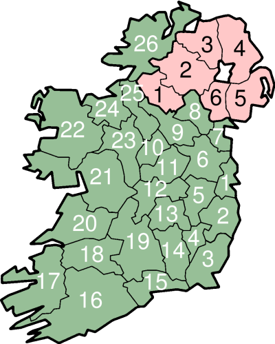 Map showing the 32 counties of Ireland. 08:07, 5 February 2004 Morwen 400x499 (95970 bytes) (map)